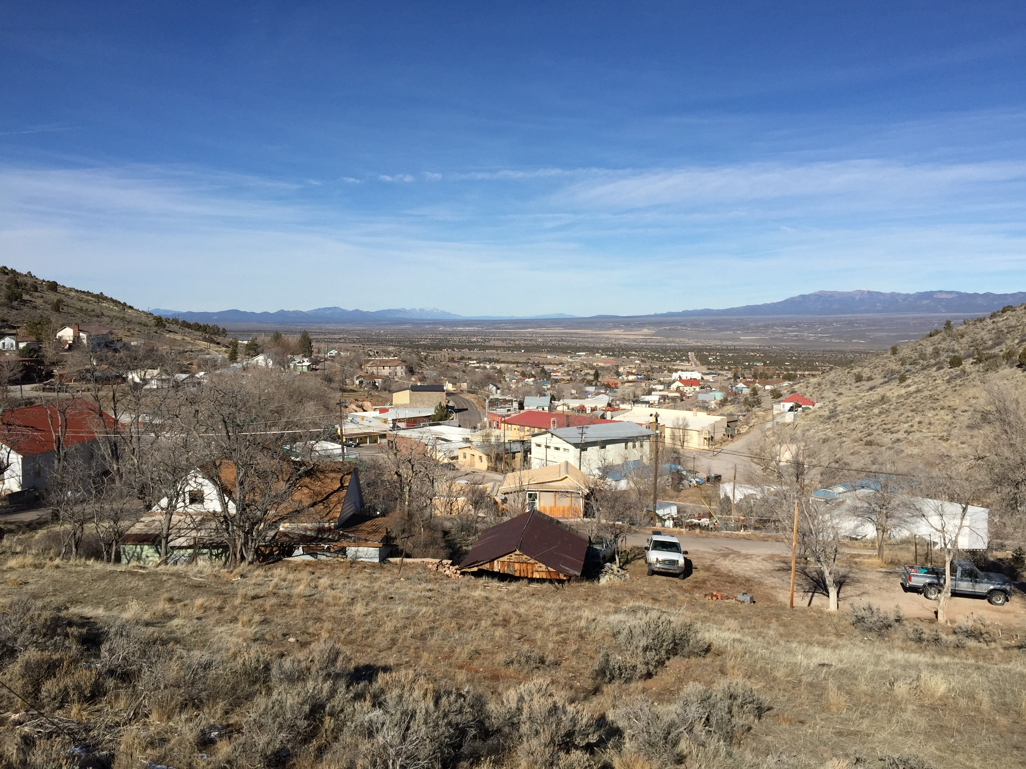 View northeast across Pioche, Nevada from Nevada State Route 321